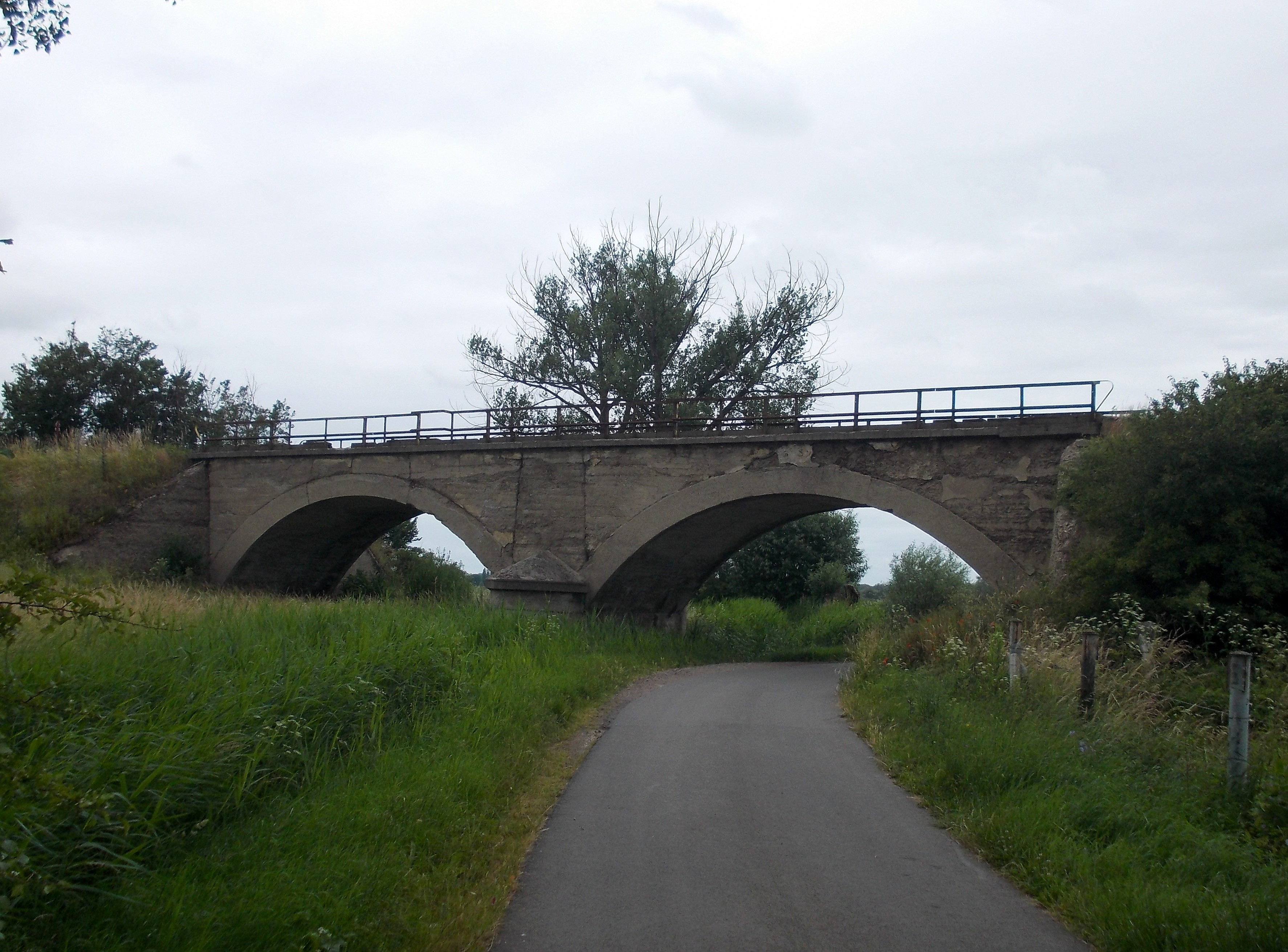 Bridge of the Merseburg–Leipzig railway line over the street between Friedensdorf (Leuna) and Trebnitz (Merseburg), Saalekreis, Saxony-Anhalt